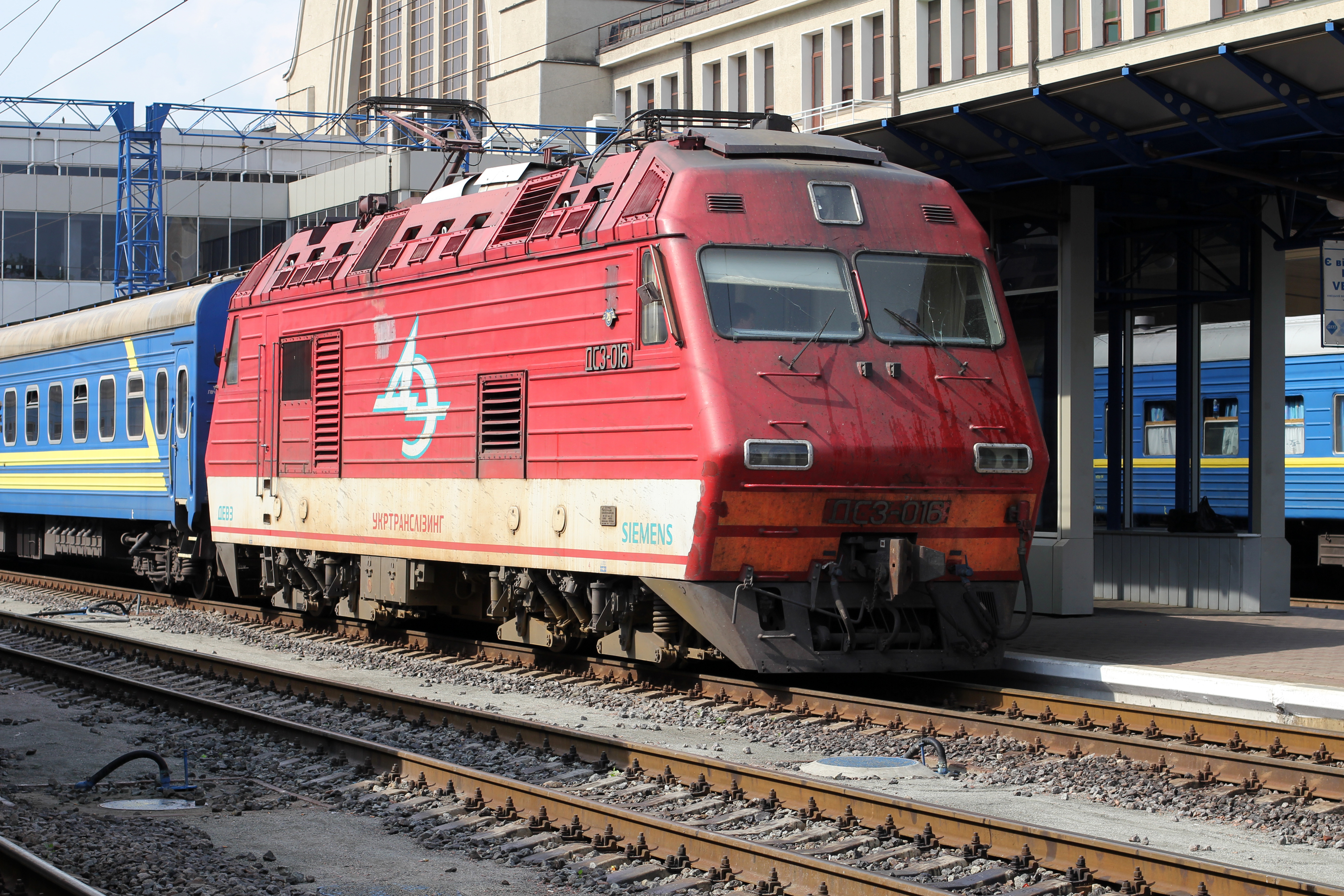 Electric locomotive DS3-016 in Kiev Passenger railway station. This locomotive has been made in 2008.